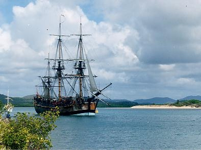 Endeavour replica in Cooktown harbour